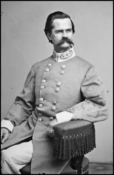 William Beall (1825-1883)